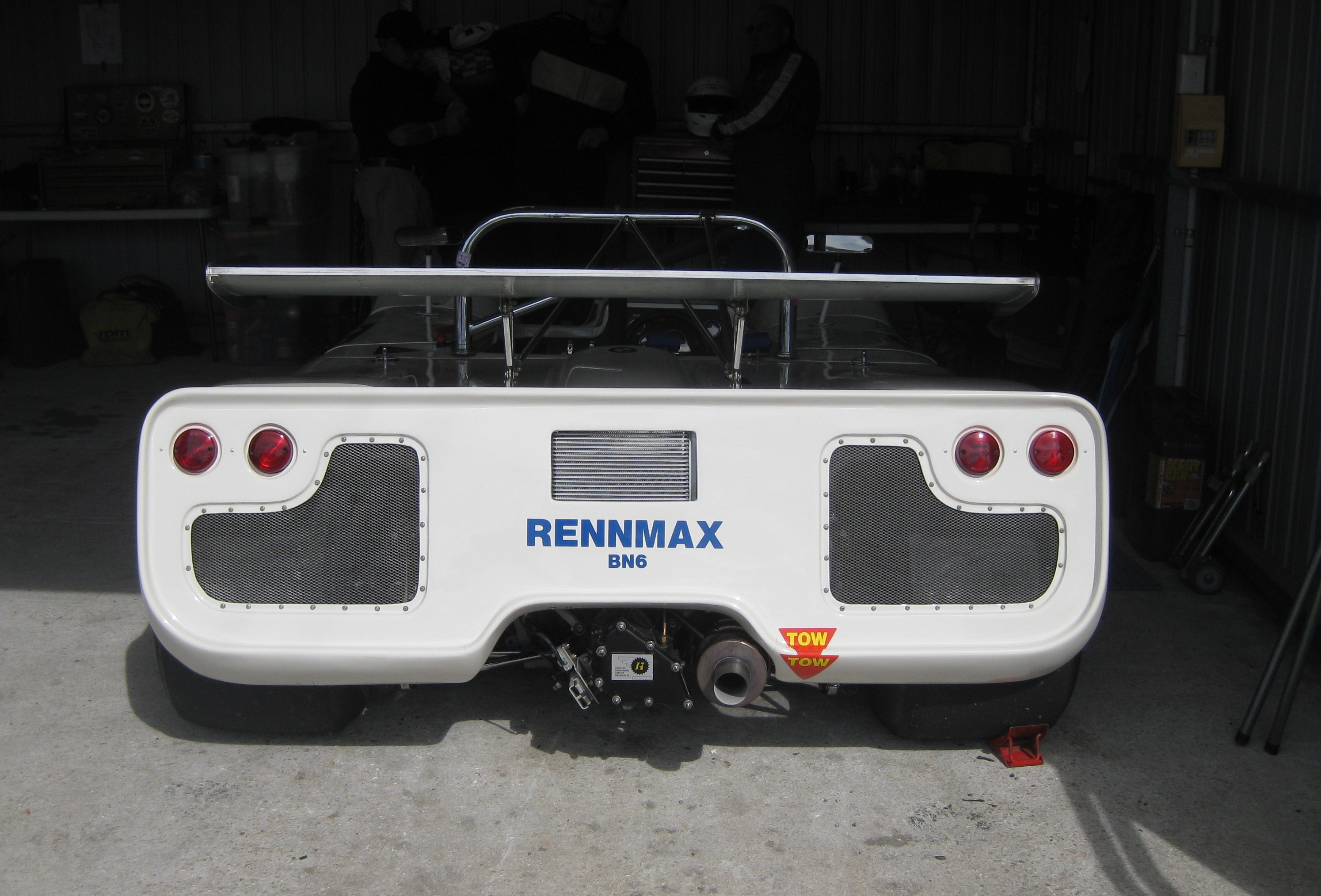 The Rennmax BN6 of Jim Foulis at the All Historic Races, Mallala Motor Sport Park, 7 April 2012